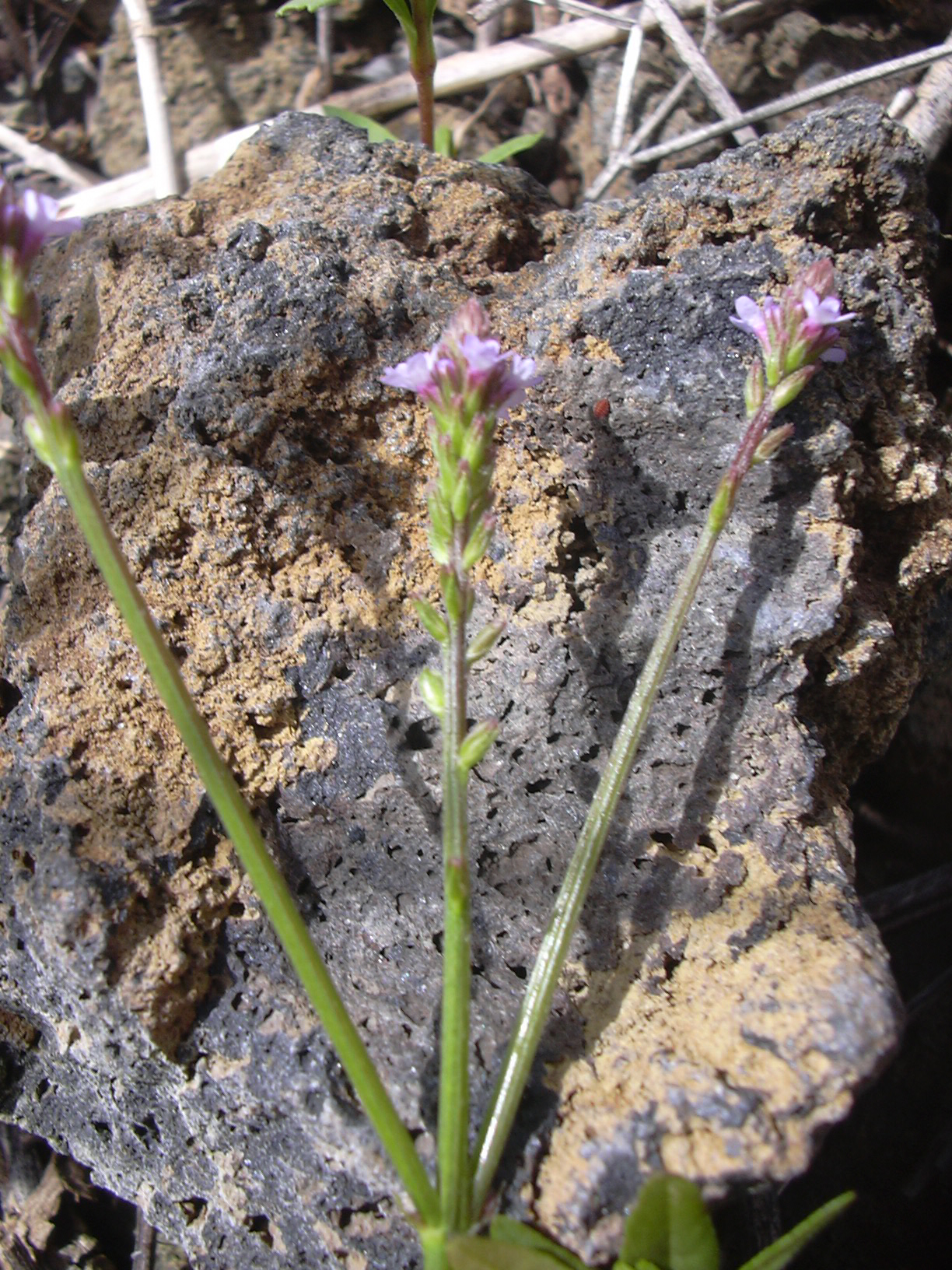 Verbena litoralis (flower). Location: Maui, Auwahi